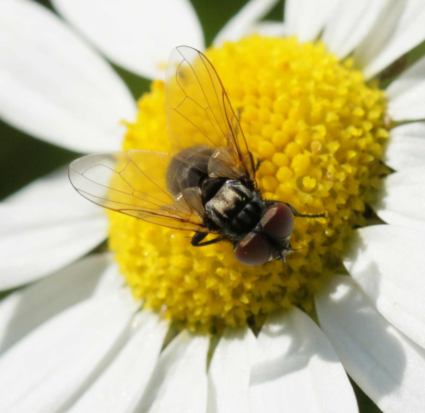 Musselburgh Invert survey